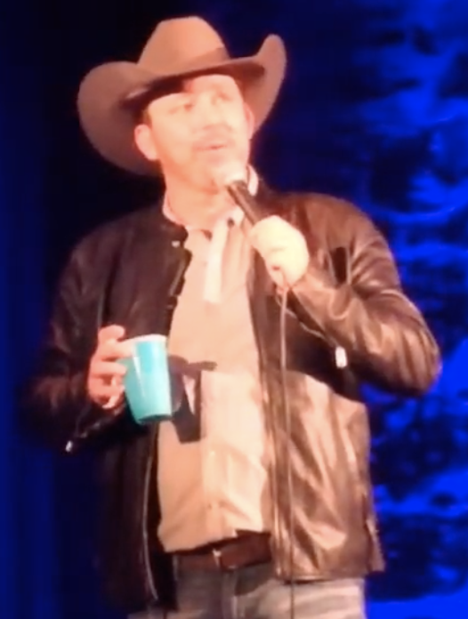 Right-wing humorist Chad Prather performing at the McDonald Theater in Eugene Oregon